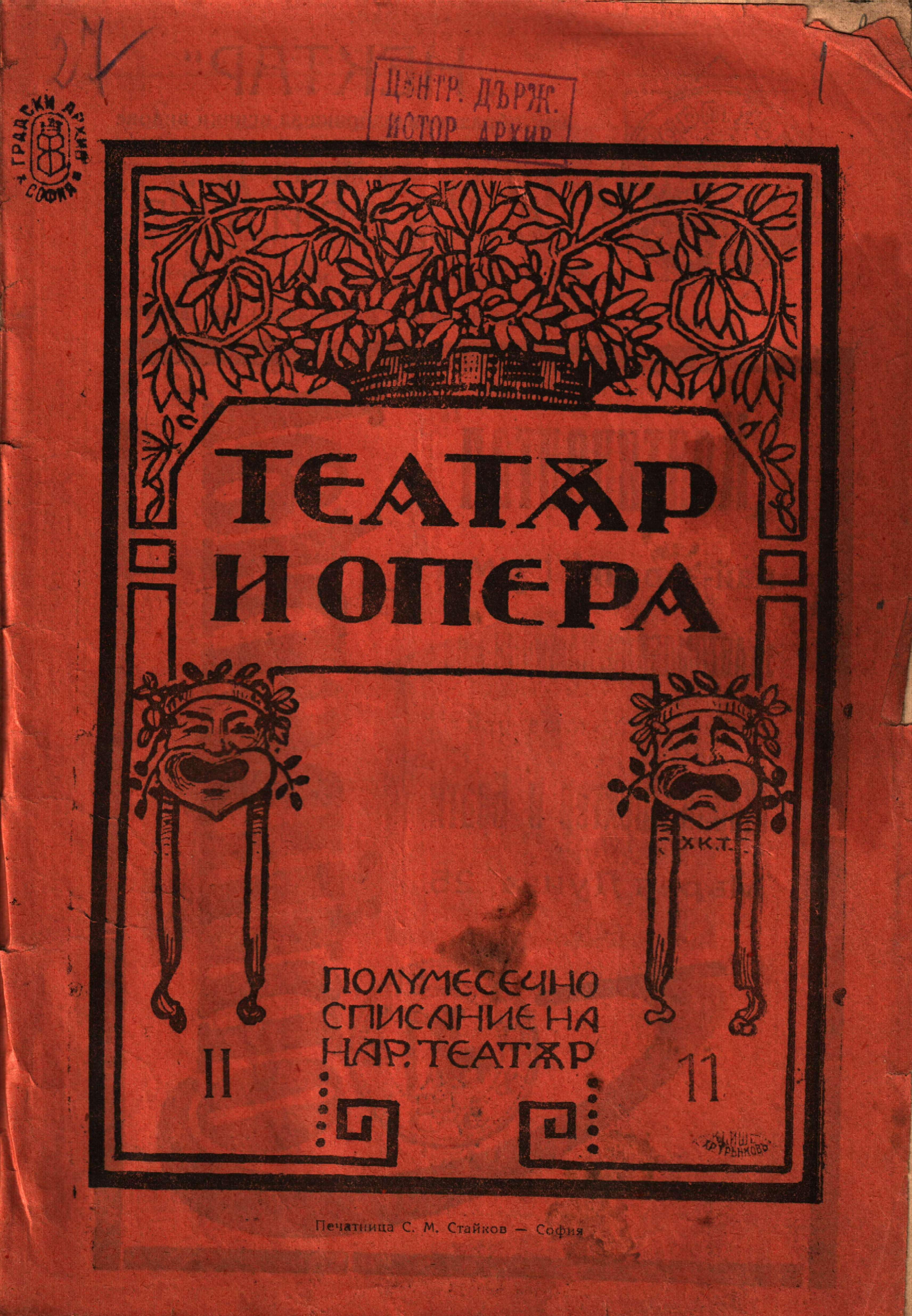 Theatre and opera magazine, Bulgaria, 11/1923